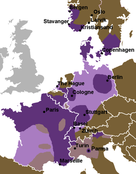 Map of the distribution of uvular/dorsal rhotics (e.g. [ʁ ʀ χ]) in northwestern continental Europe. not usual only in some educated speech usual in educated speech general